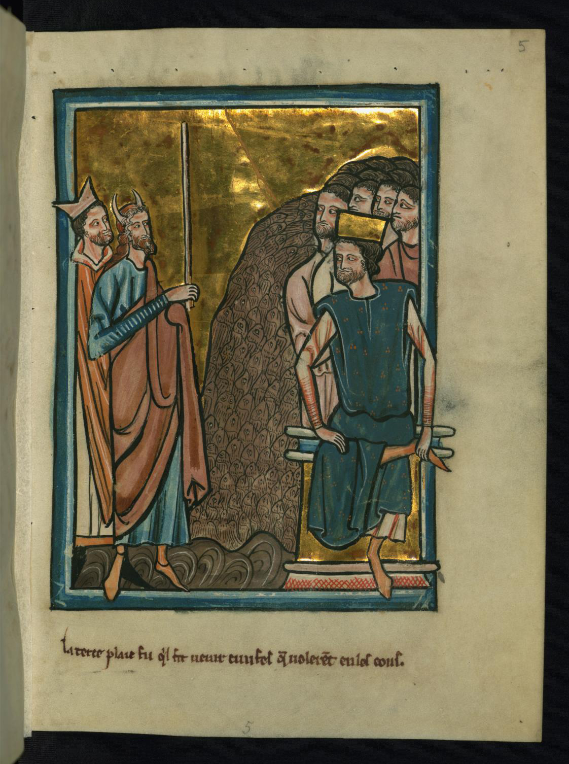 This page from Walters manuscript W.106 depicts a scene from Exodus, in which God rained plagues upon Egypt. After plagues of blood and frogs, Pharaoh hardened his heart again and would not let the Israelites leave Egypt. God told Moses to tell Aaron to stretch forth his rod and strike the dust of the earth that it may become gnats throughout the land of Egypt. Here, Moses, horned (a sign of his encounter with divinity), carries the rod, while Aaron, wearing the miter of a priest, stands behind him. The gnats arise en masse out of the dust from which they were made and attack Pharaoh, seated and crowned, and his retinue.